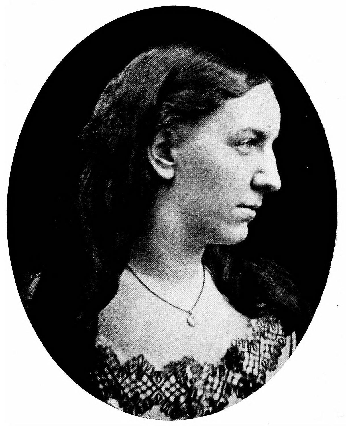 Profile photograph of the English novelist "Ouida" - Maria Louise Ramé